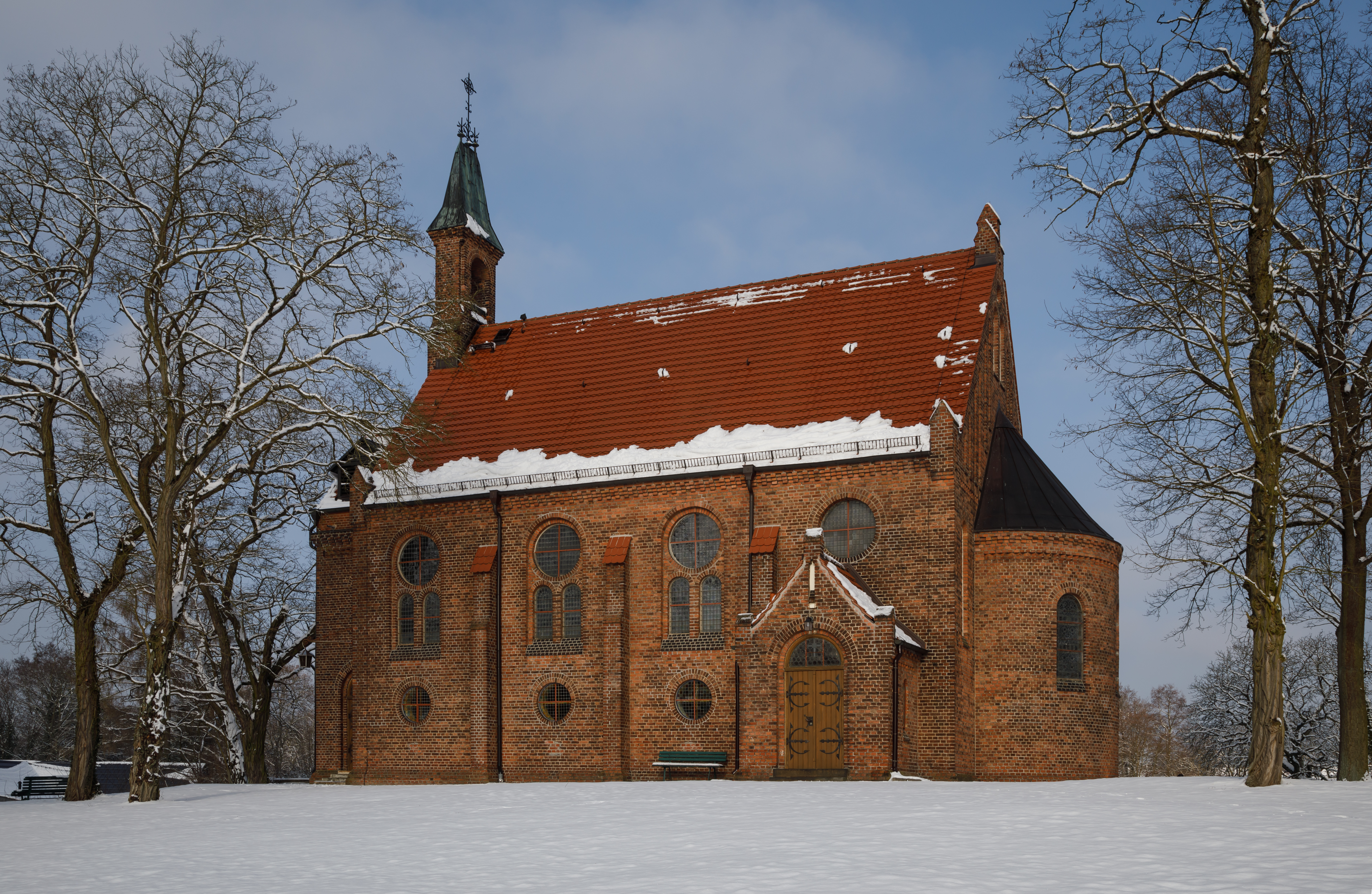 Grünheide (Mark), Germany: Kirche zum Guten Hirten (Church of Good Shepherd)